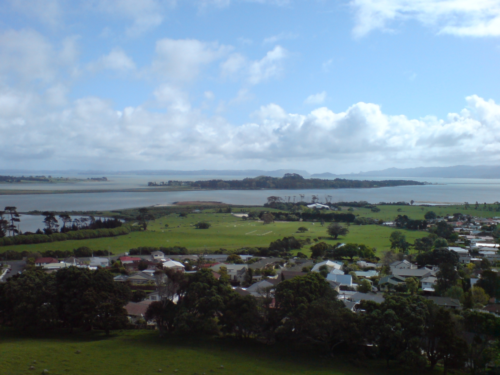 Puketutu Island in the Manukau Harbour, New Zealand.